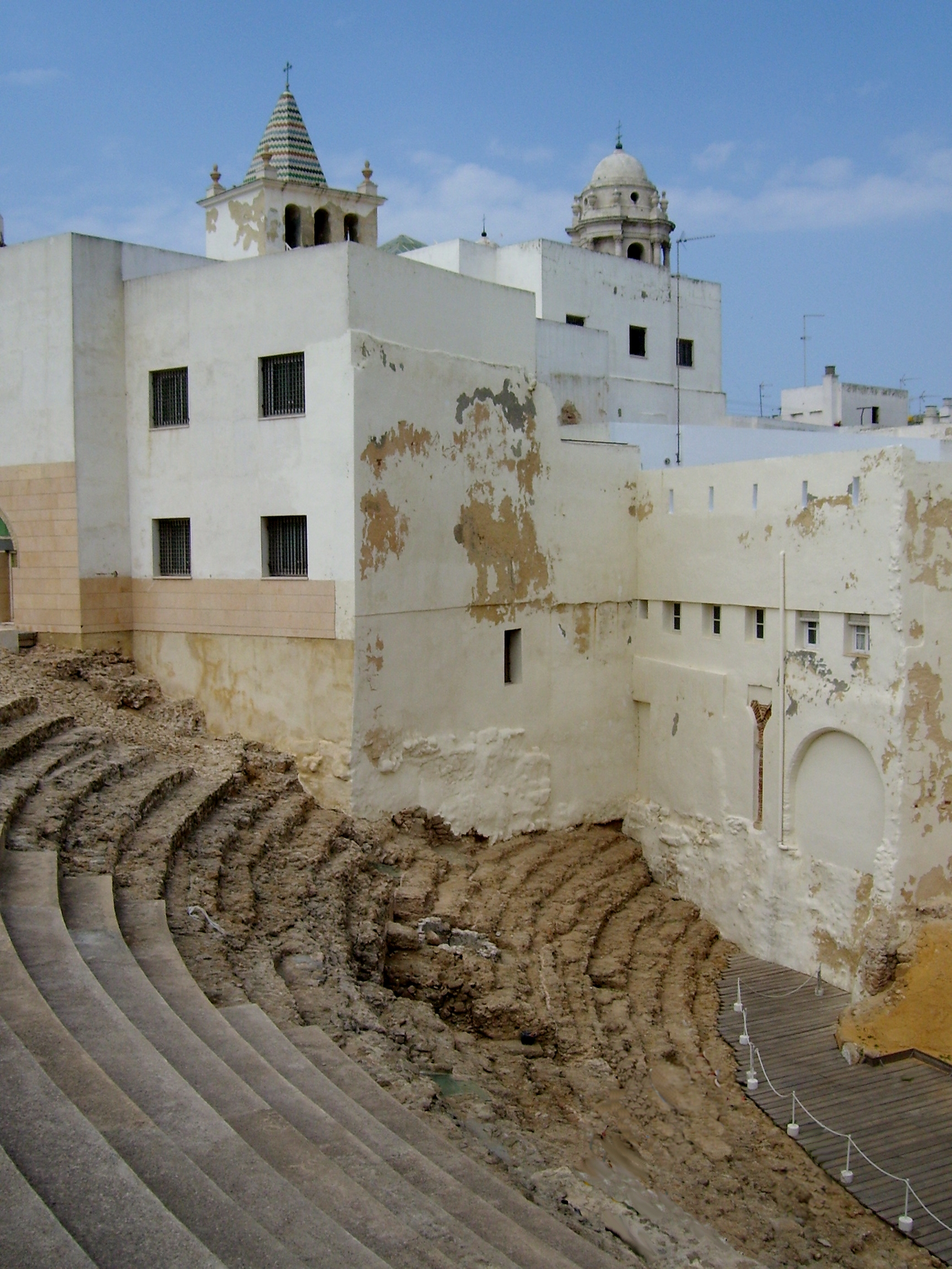 Cadiz's Roman Theatre terraces.